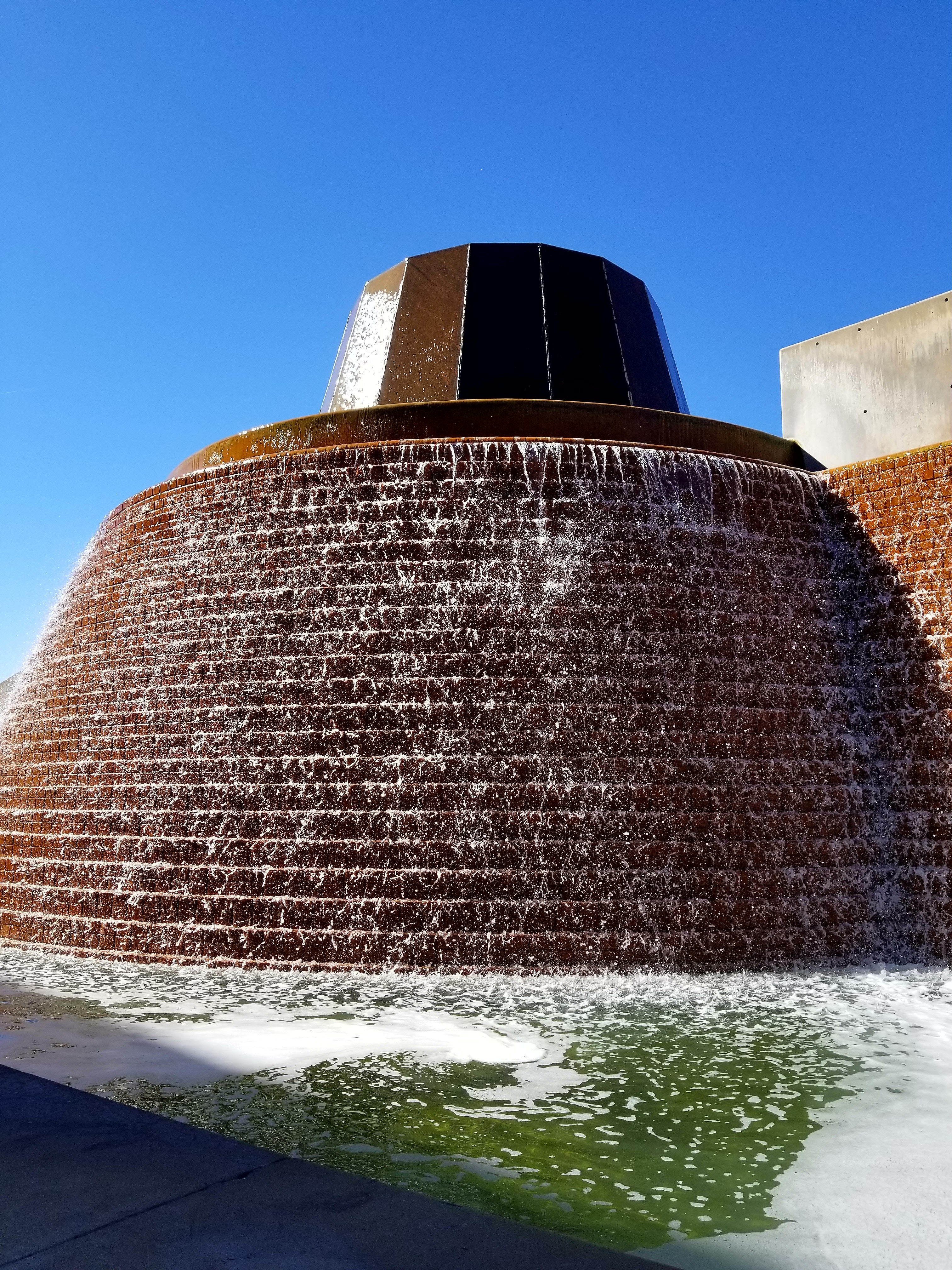 A waterfall on campus